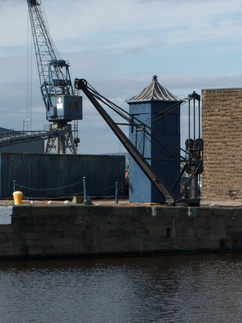 Hydraulic Crane, Albert Dock, Leith When completed in 1869 this was the first dock in Scotland to be equipped with hydraulic cranes. This sole survivor is now preserved as an item of industrial archaeology along with its adjacent control box.